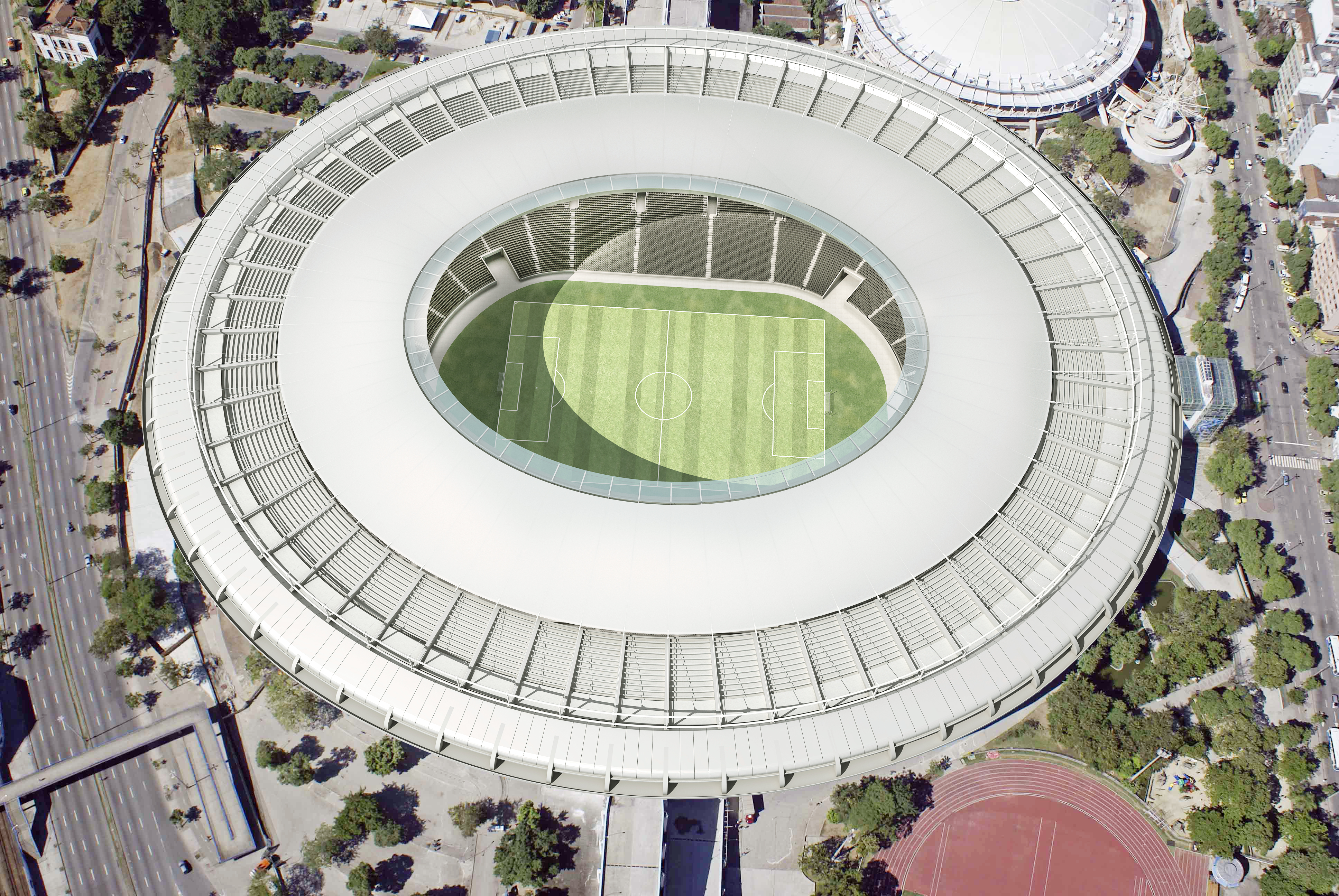 (Brasil World Cup 2014)